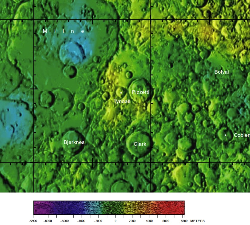 Part of the USGS far side lunar chart